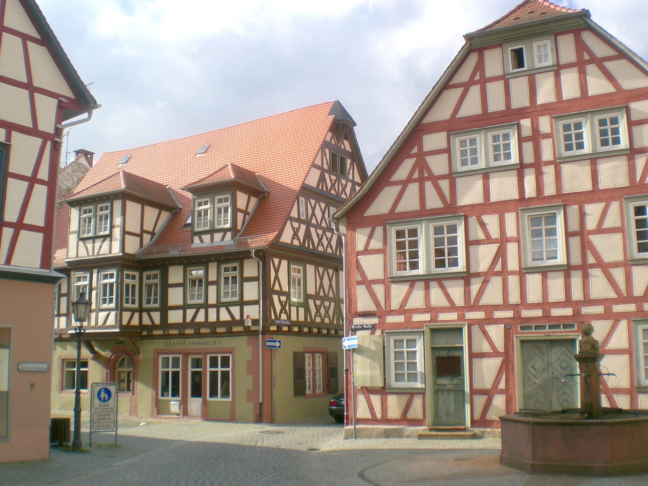 Historical timber framed houses in Michelstadt, Germany